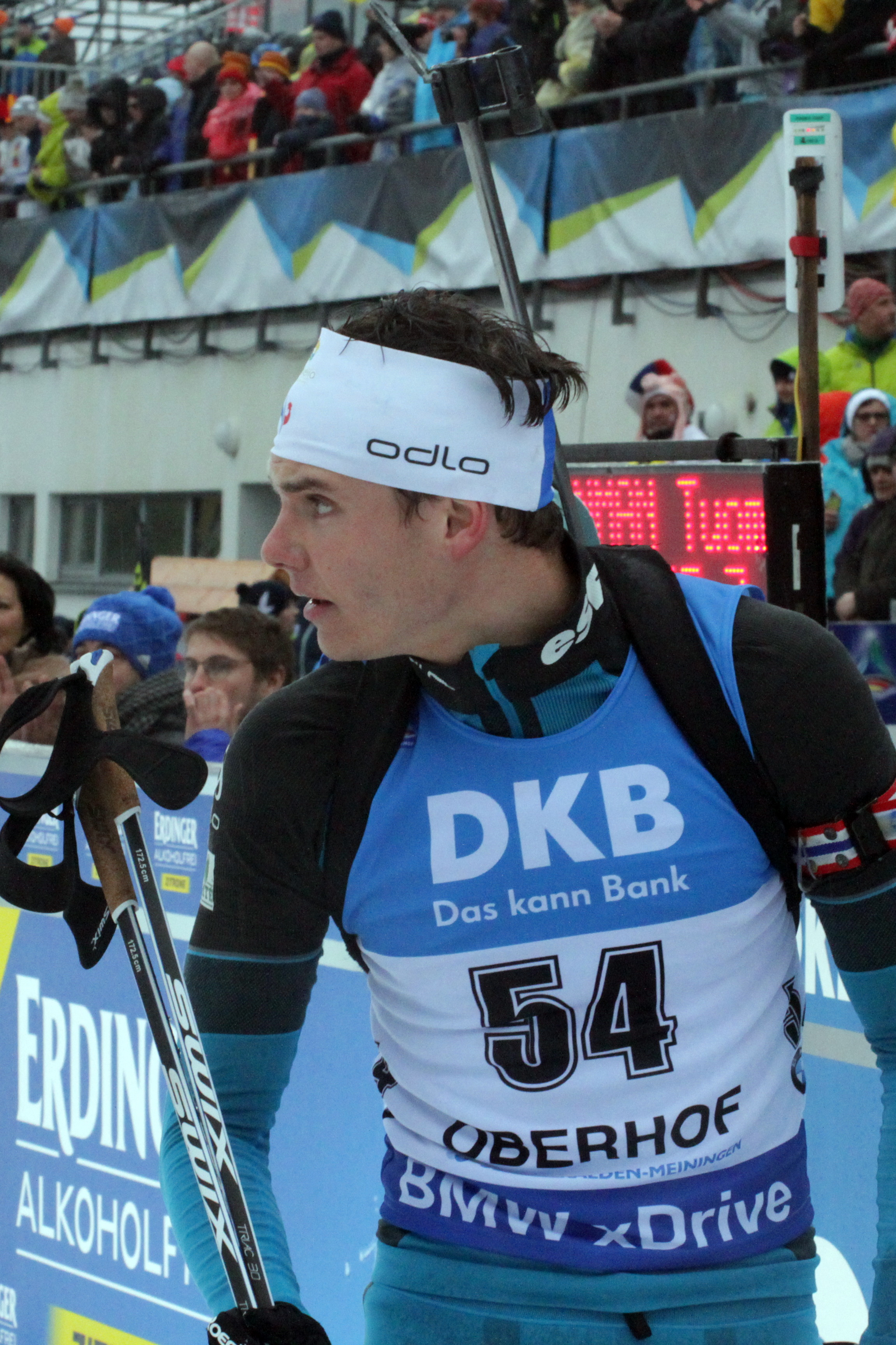 2018 Oberhof Biathlon World Cup - Pursuit Men